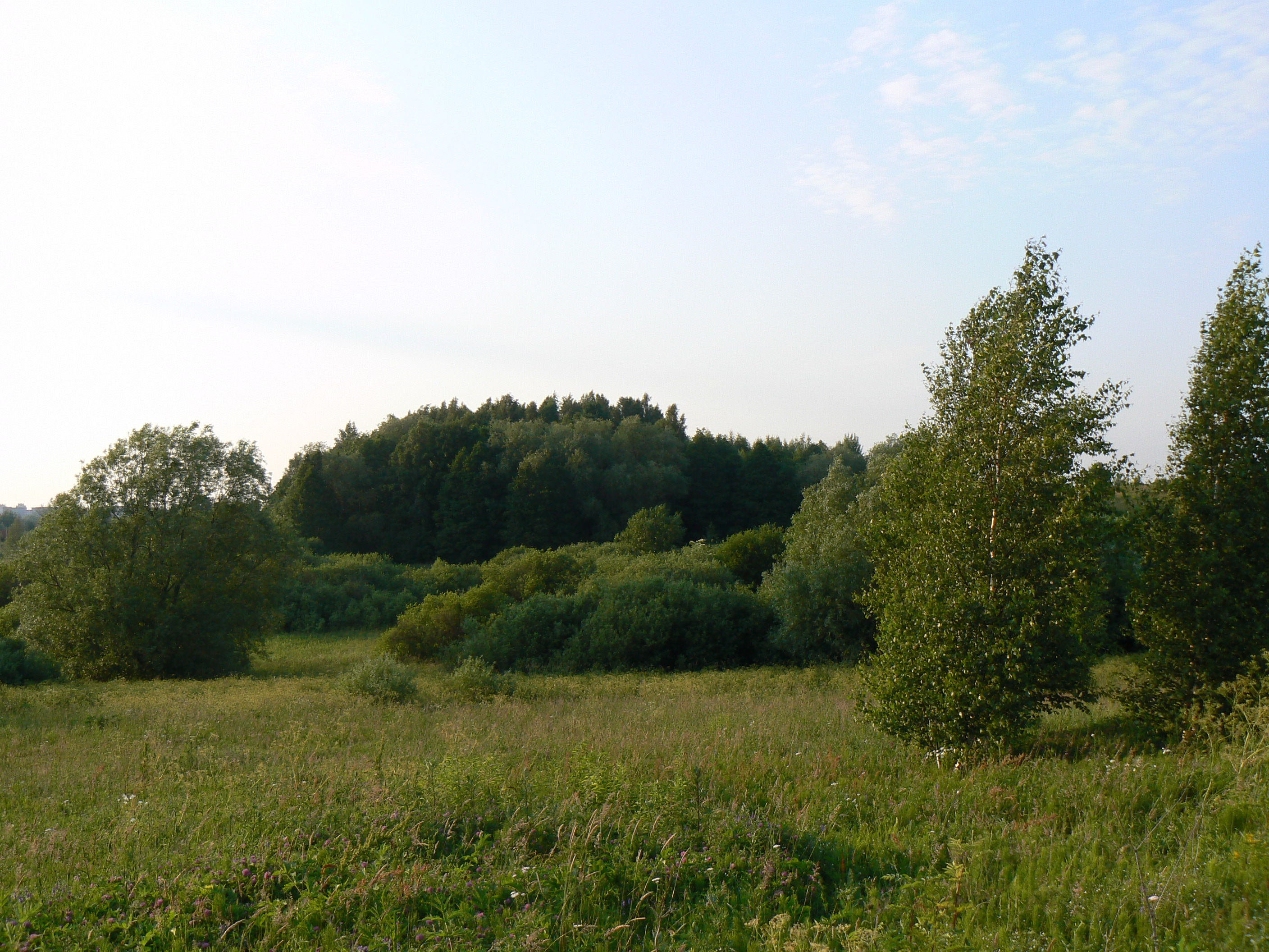 Hillfort Laistų piliakalnis from South Česky: Hradiště Laistų piliakalnis od jihu. Z této strany v přístupu brání bažiny. Piliakalnis je na jih od Klajpedy, nedaleko na ZJZ od překladového železničního nádraží "Draugystė".